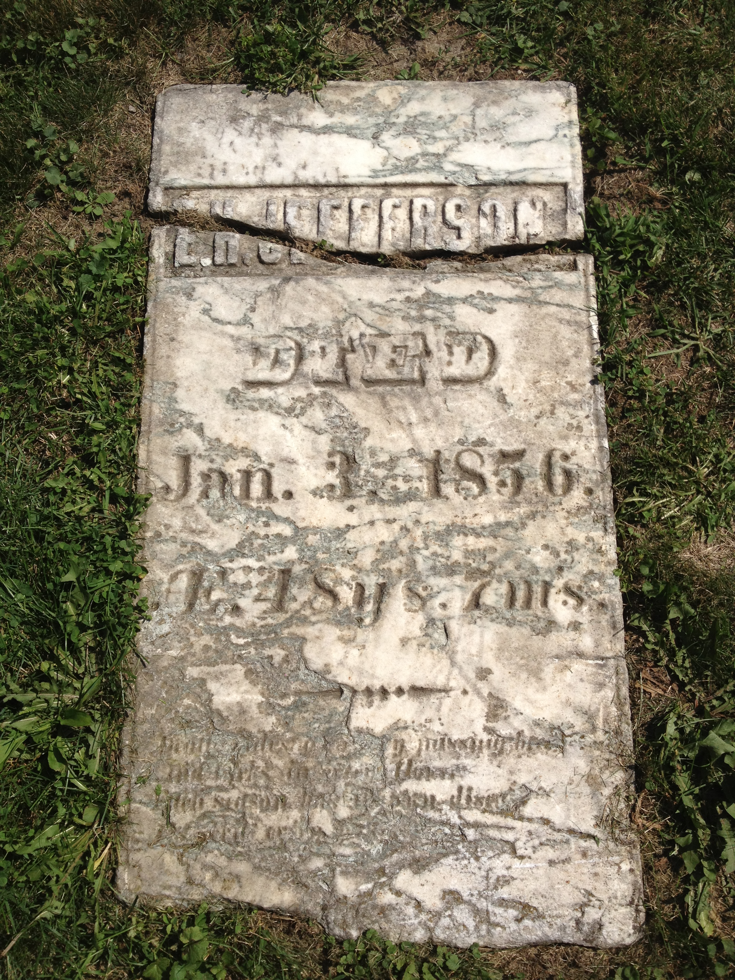 The gravesite of Eston Hemings Jefferson, the youngest son of Pres. Thomas Jefferson and Sarah "Sally" Hemings, in Madison, Wisconsin.